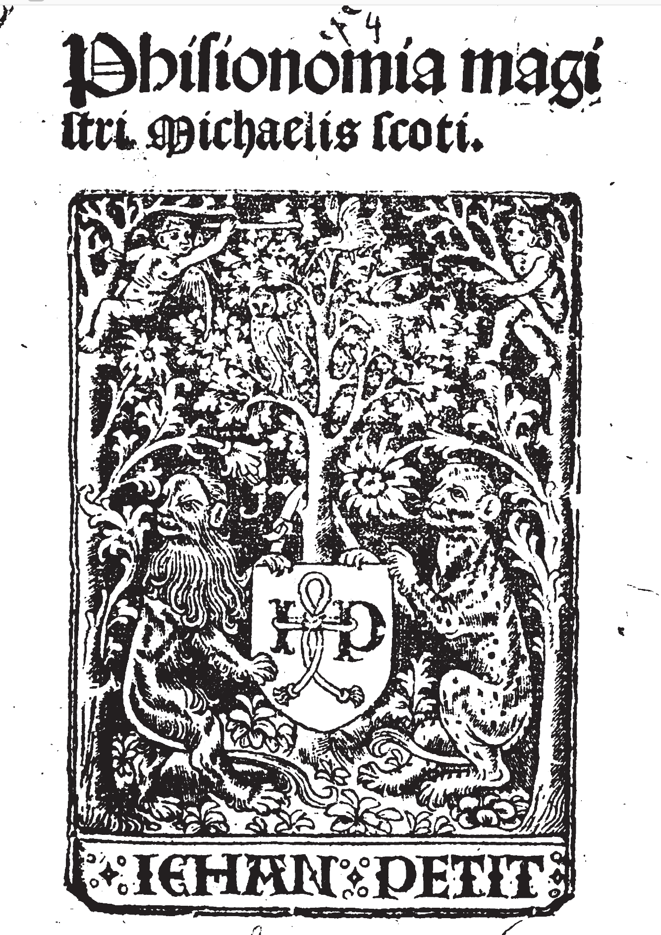 Liber physiognomiae, edition 1483